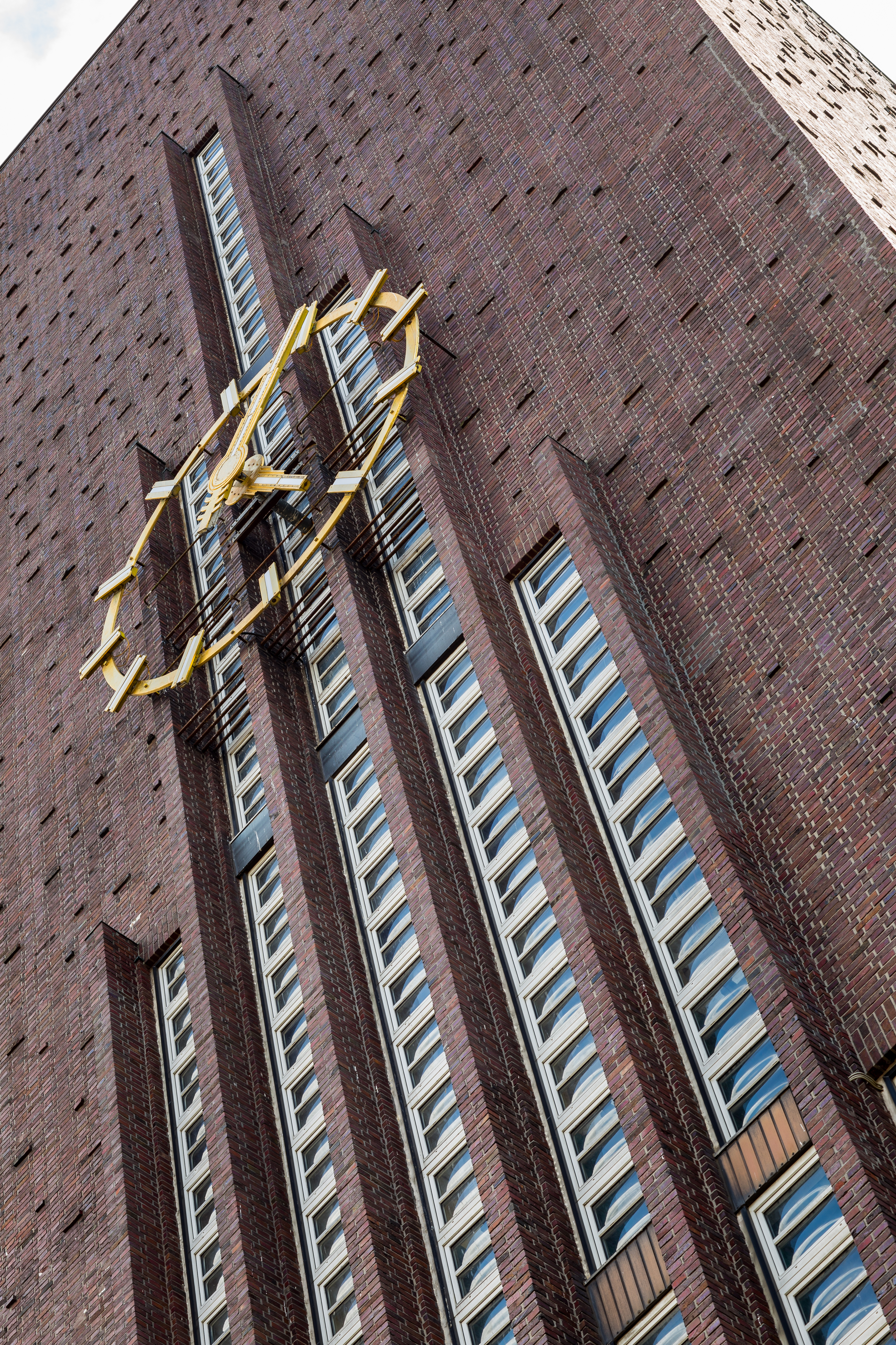 Wilhelmshaven townhall located in Wilhelmshaven, Lower Saxony, Germany. View tilted upwards along the monumental tower (northern side).